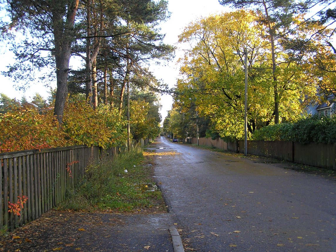 Laulu Street in Tallinn